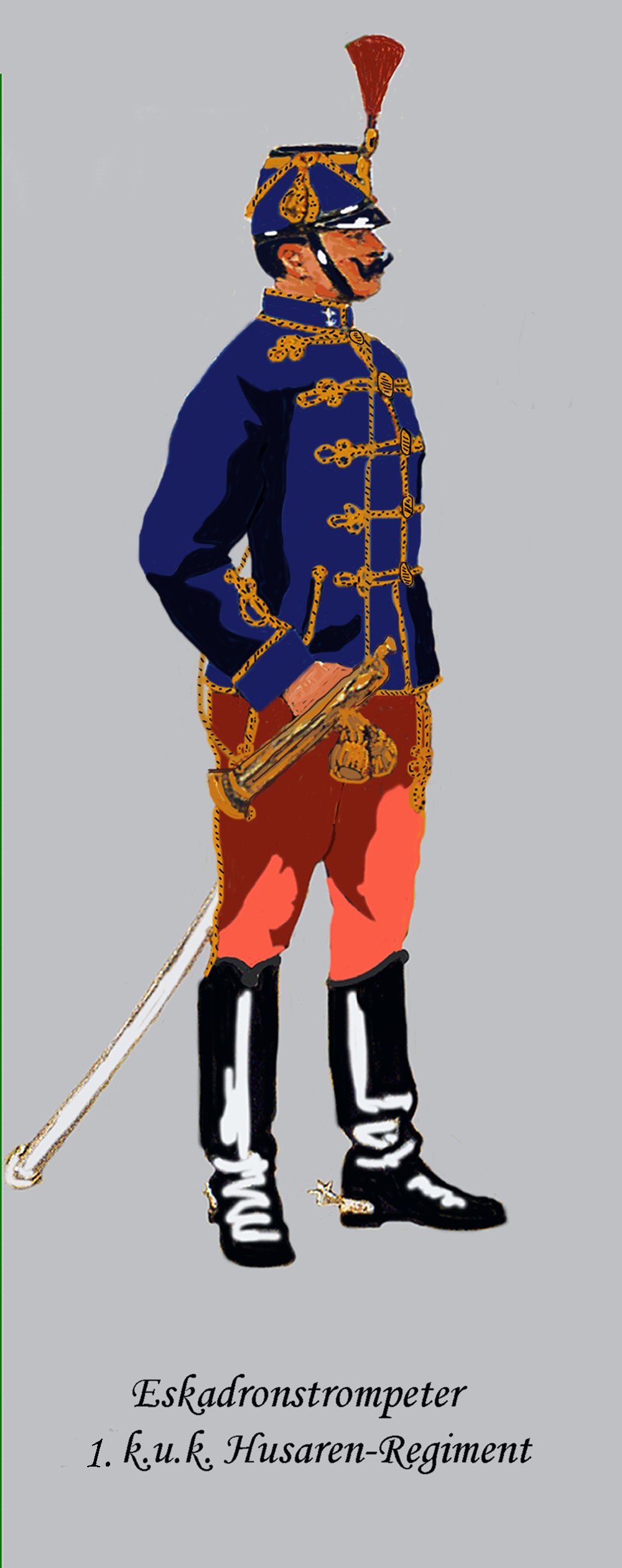 Bugler of the 1st Austria-Hungarian Hussars-Regiment. Service dress. Uniform in use until about 1916